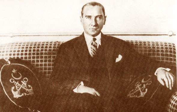 Atatürk visits Mudanya (5 June 1926)